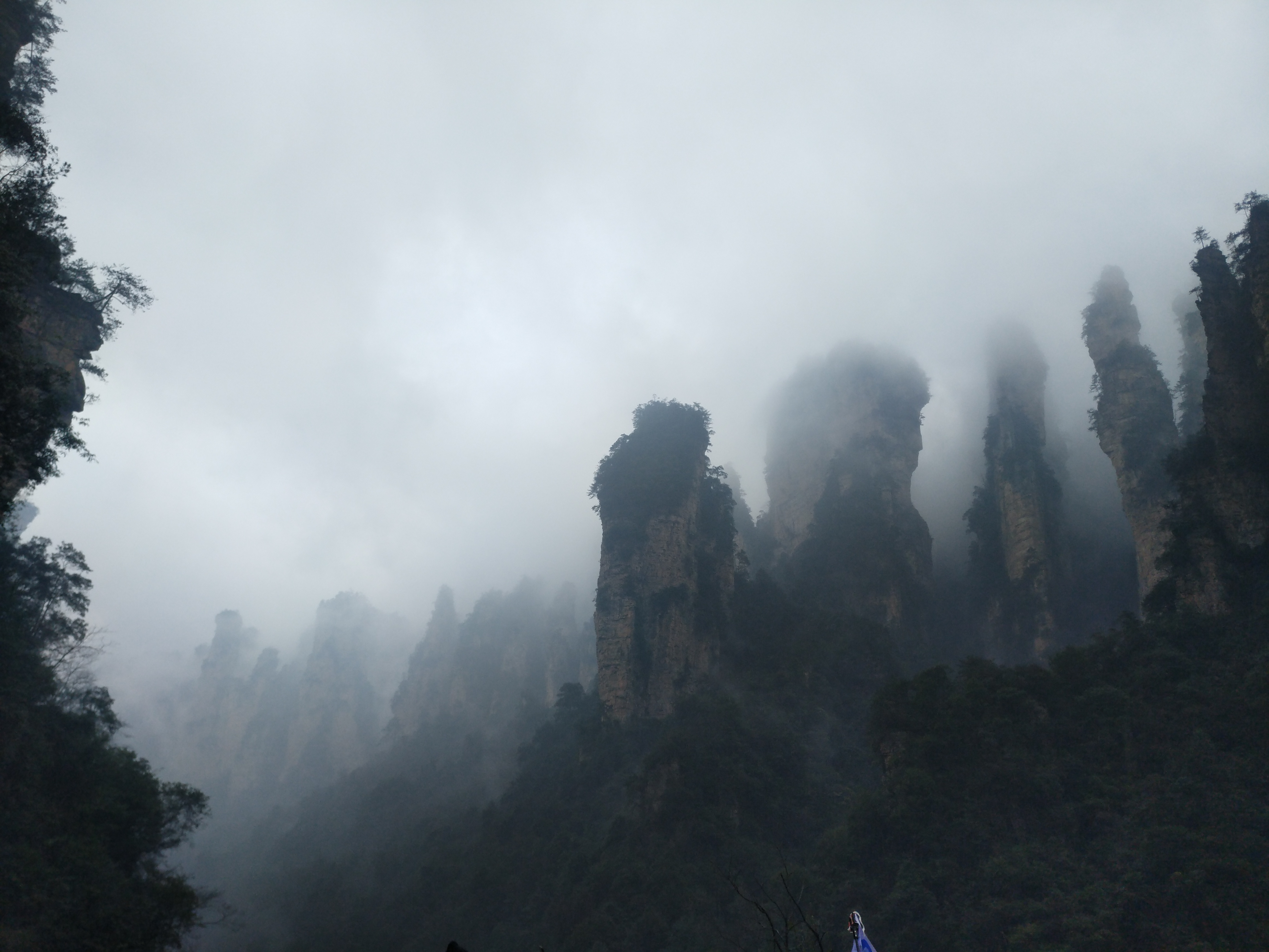 张家界景区“天兵天将”石柱